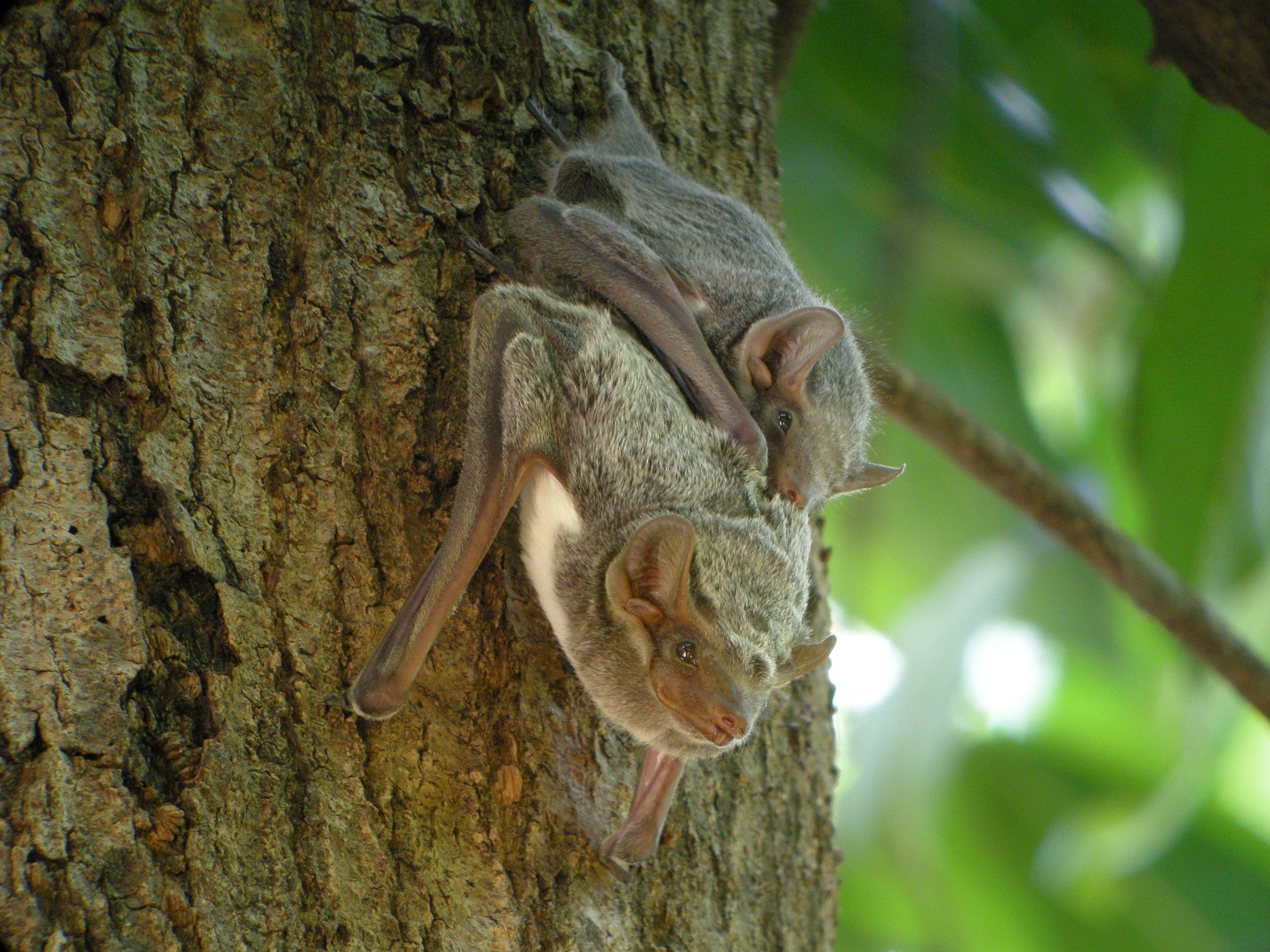 A pair of Mauritian Tomb Bats in Ankarafantsika, Madagascar